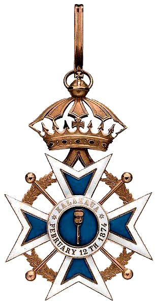 Source: [1] Author: Ian Watts License GNU